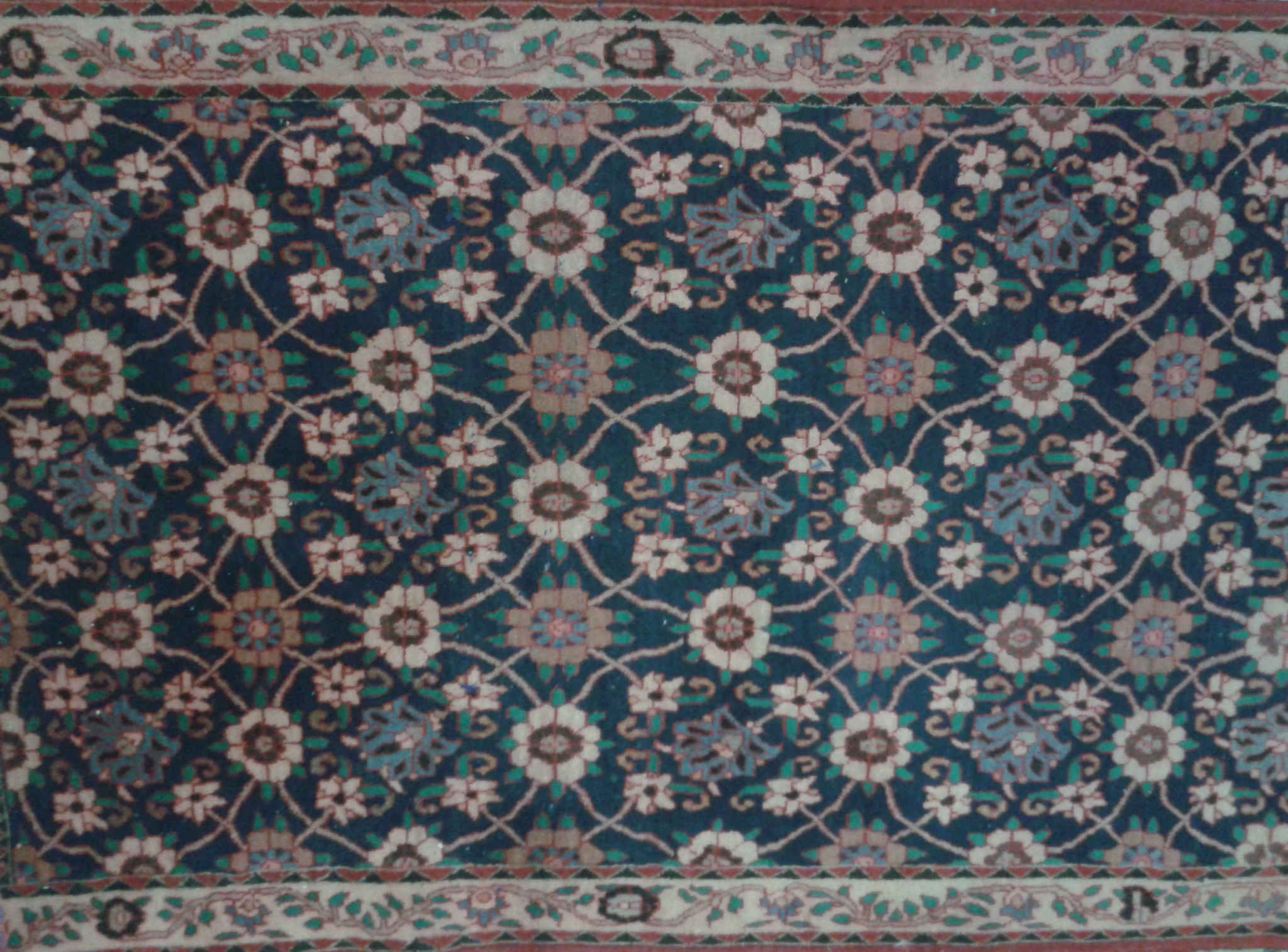 This is a handwoven Varamin Carpet.